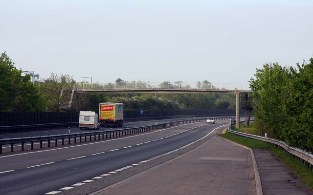 Footbridge over the A34 at Abingdon